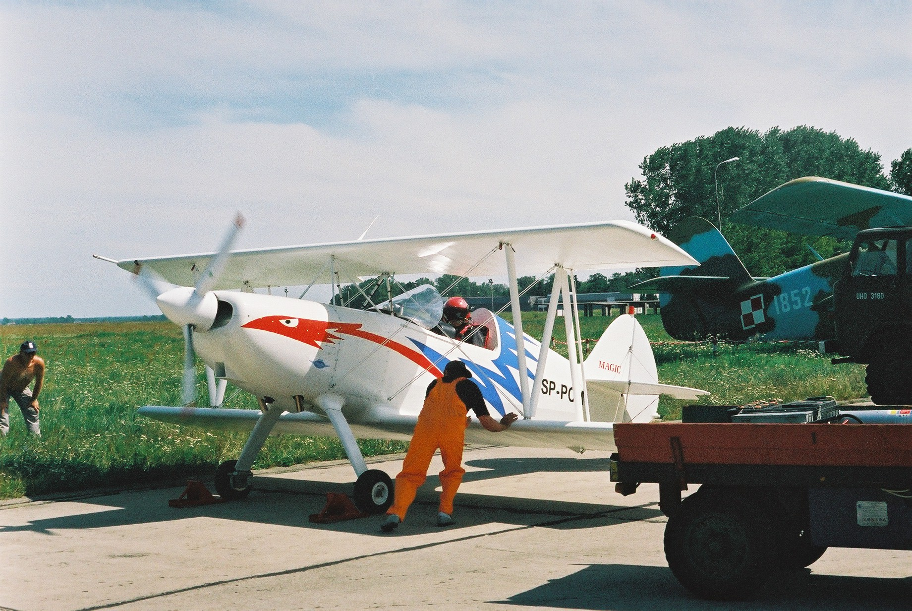 Flight test – test pilot MSc Maciej Aksler